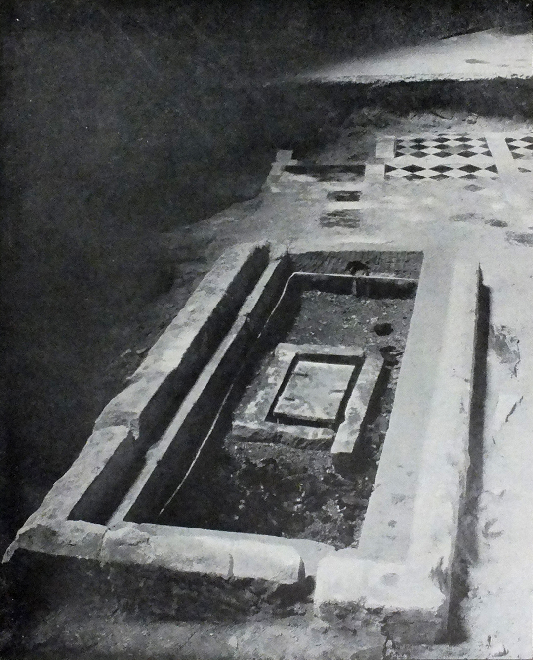 St. Wenceslas grave in St. Wenceslas chapel in St. Vitus Cathedral, Prague.